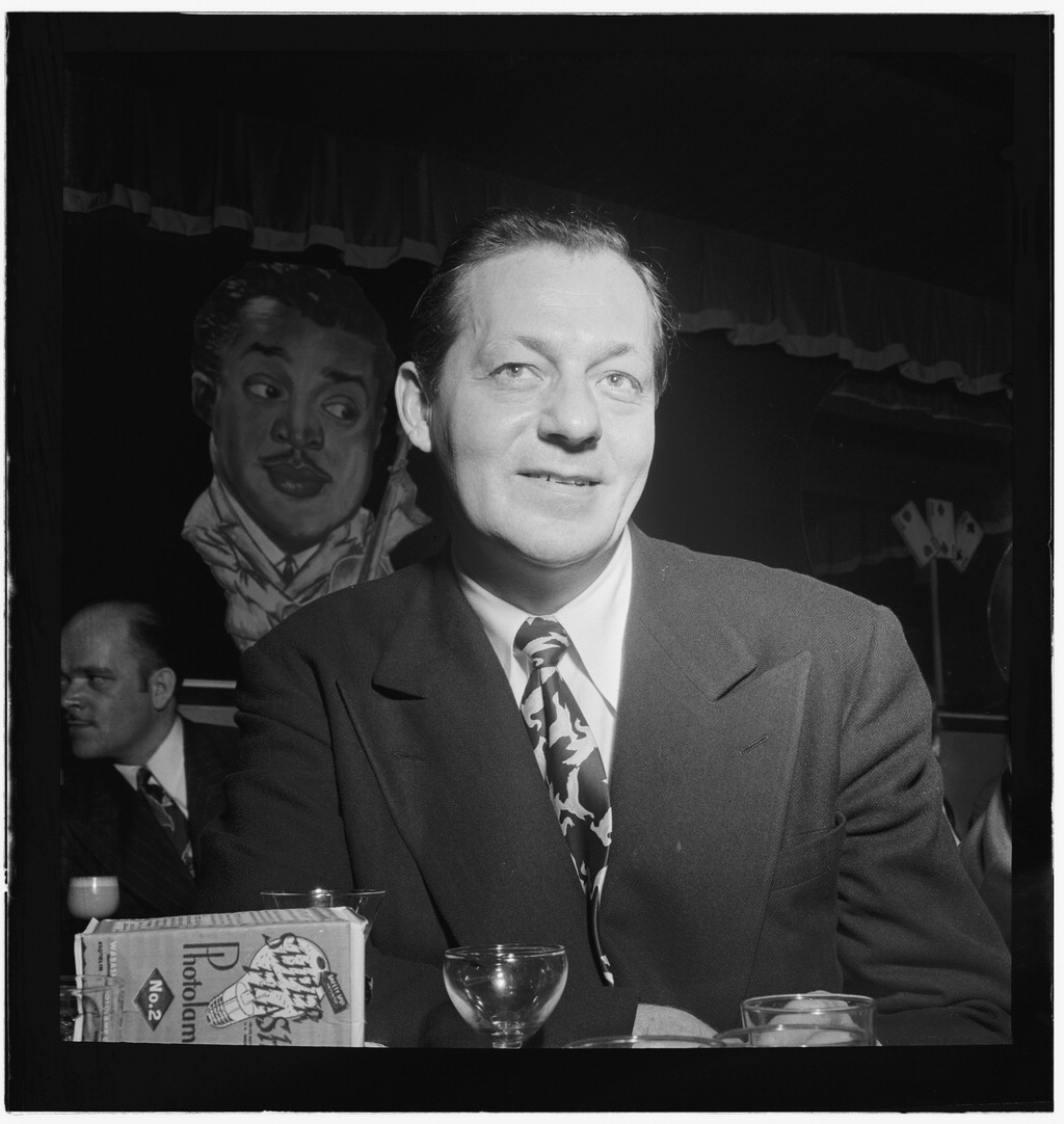 Bob Chester, NYC, ca June 1947. Photography by William P. Gottlieb